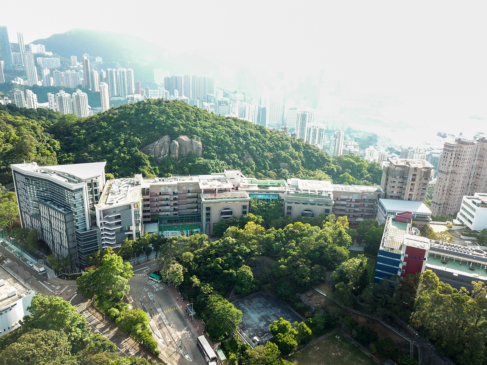 Chinese International School